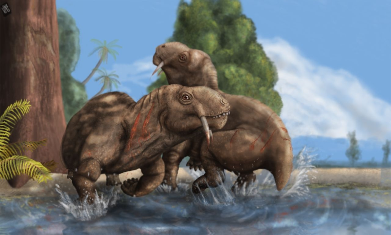 Artistic representation of two T. eccentricus individuals on agonistic behaviour in southern Brazil. Illustration by Voltaire Paes Neto.